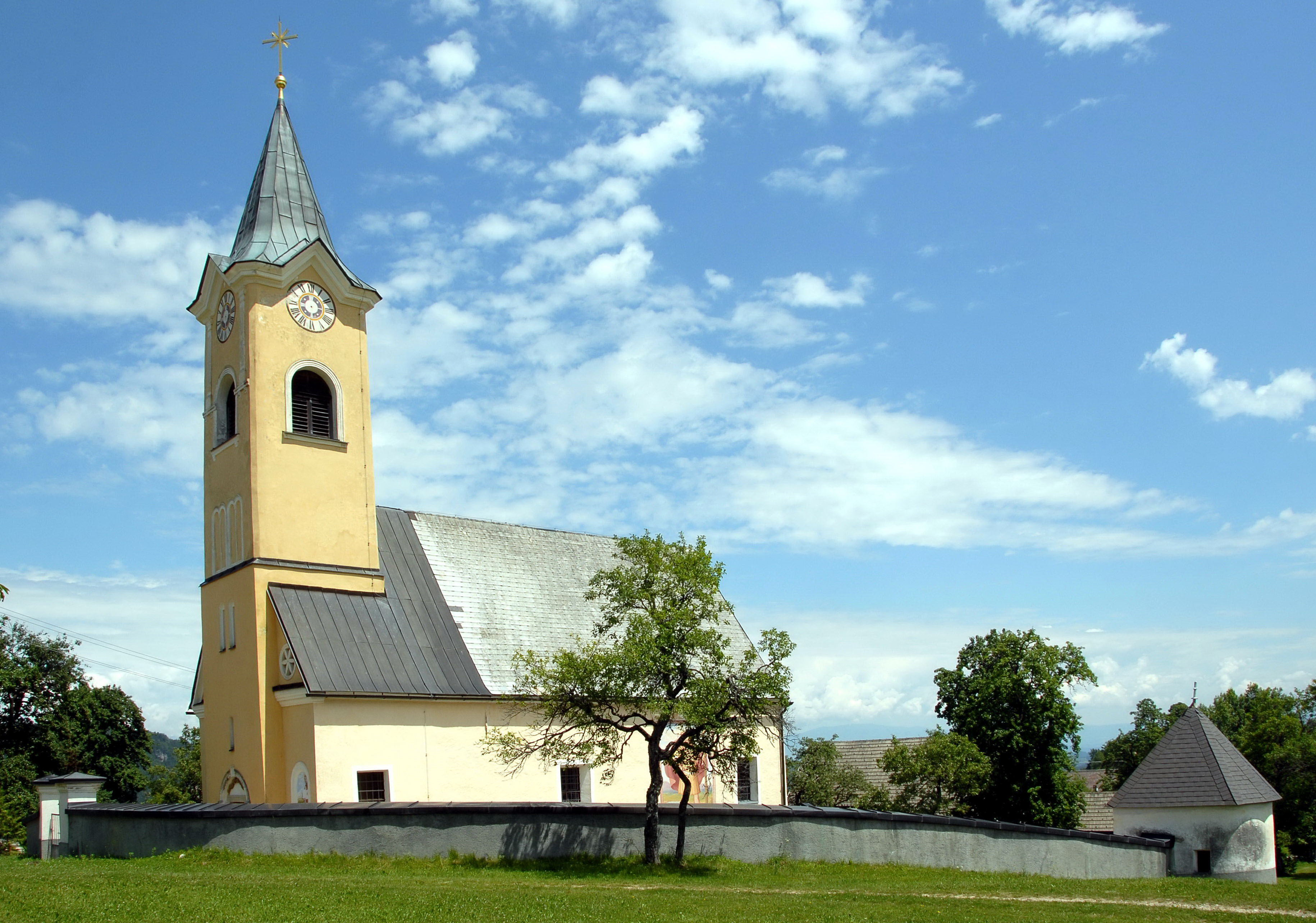 Parish church Saint Leonard at Abtei, municipality Gallizien, district Voelkermarkt, Carinthia, Austria, EU